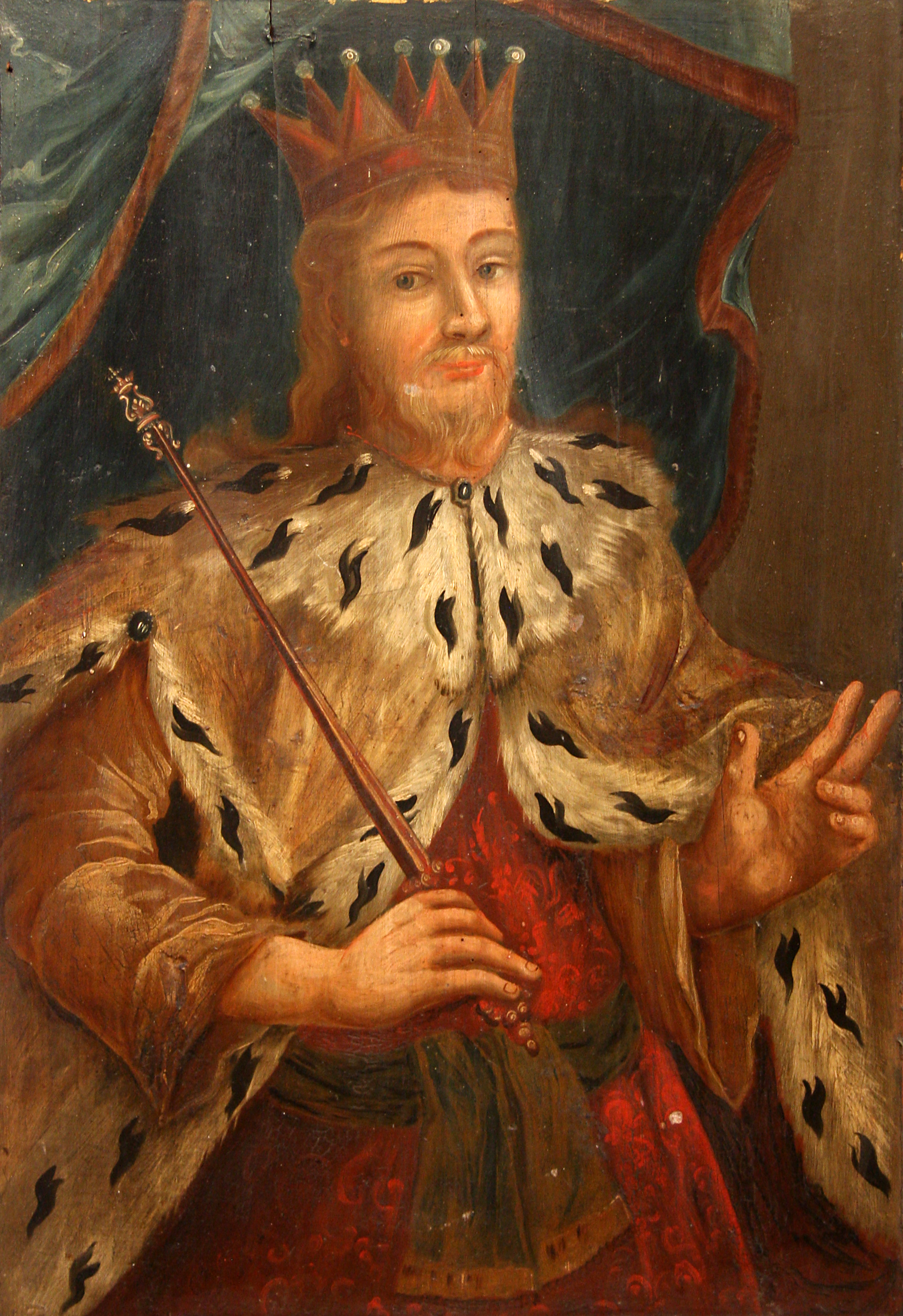 King Solomon on a 17th century painting by unknown artist in the choir of Sankta Maria kyrka in Åhus, Sweden.